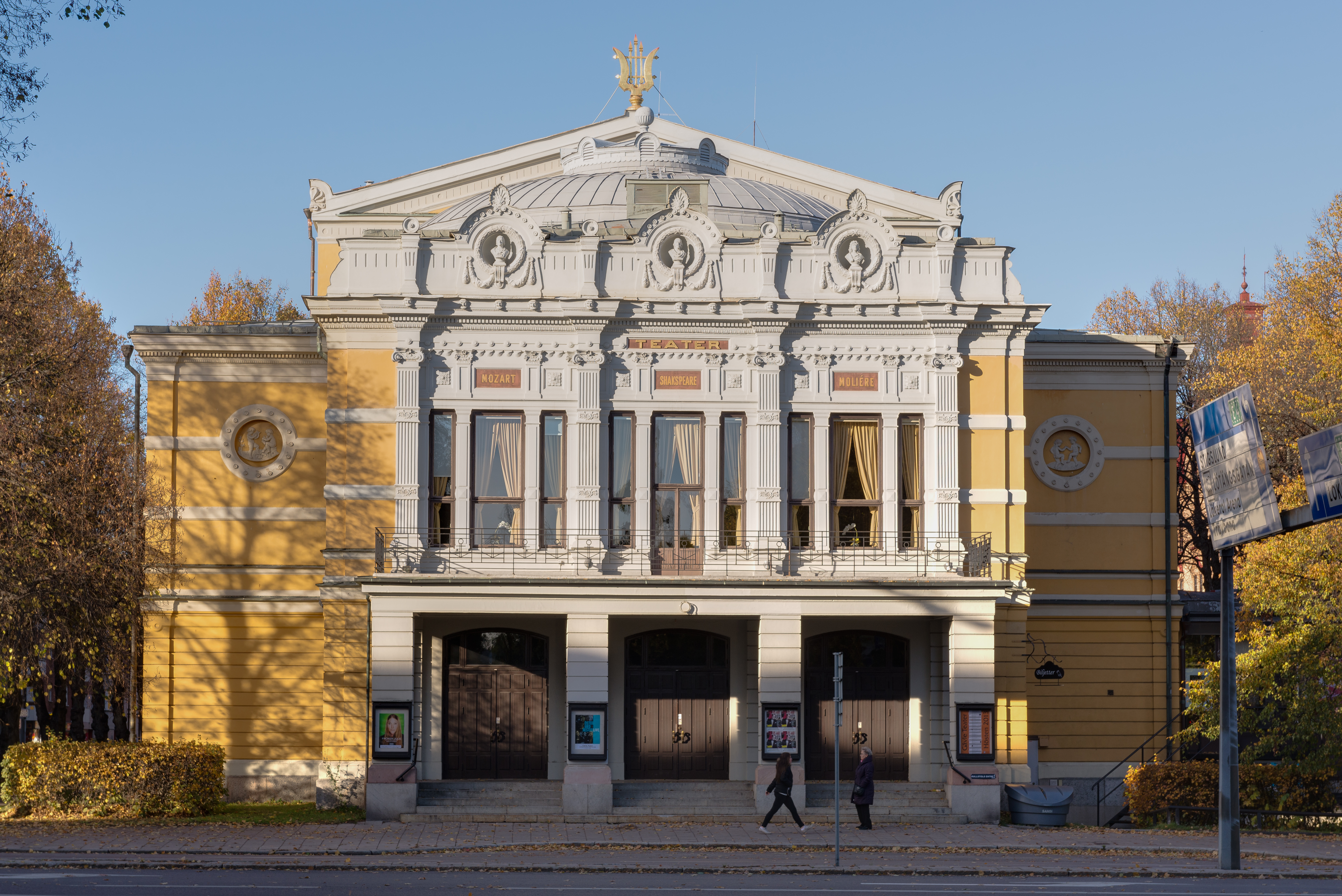 Gävle teater (theater), Gävle.